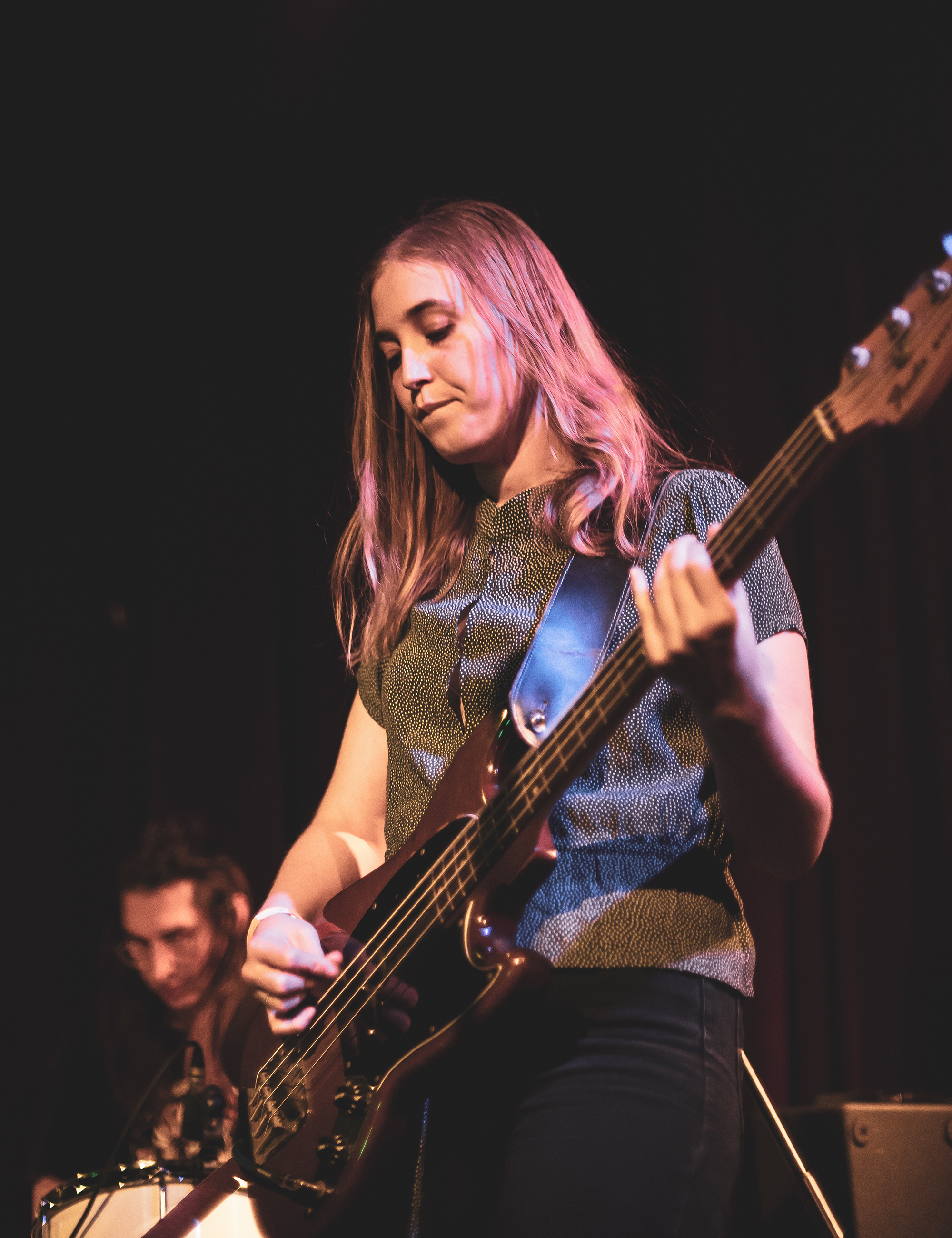 Hatchie (Harriette Pilbeam) performing live at the Bootleg Theater in Los Angeles, California, on Saturday, September 22, 2018. Shot for Pass The Aux.